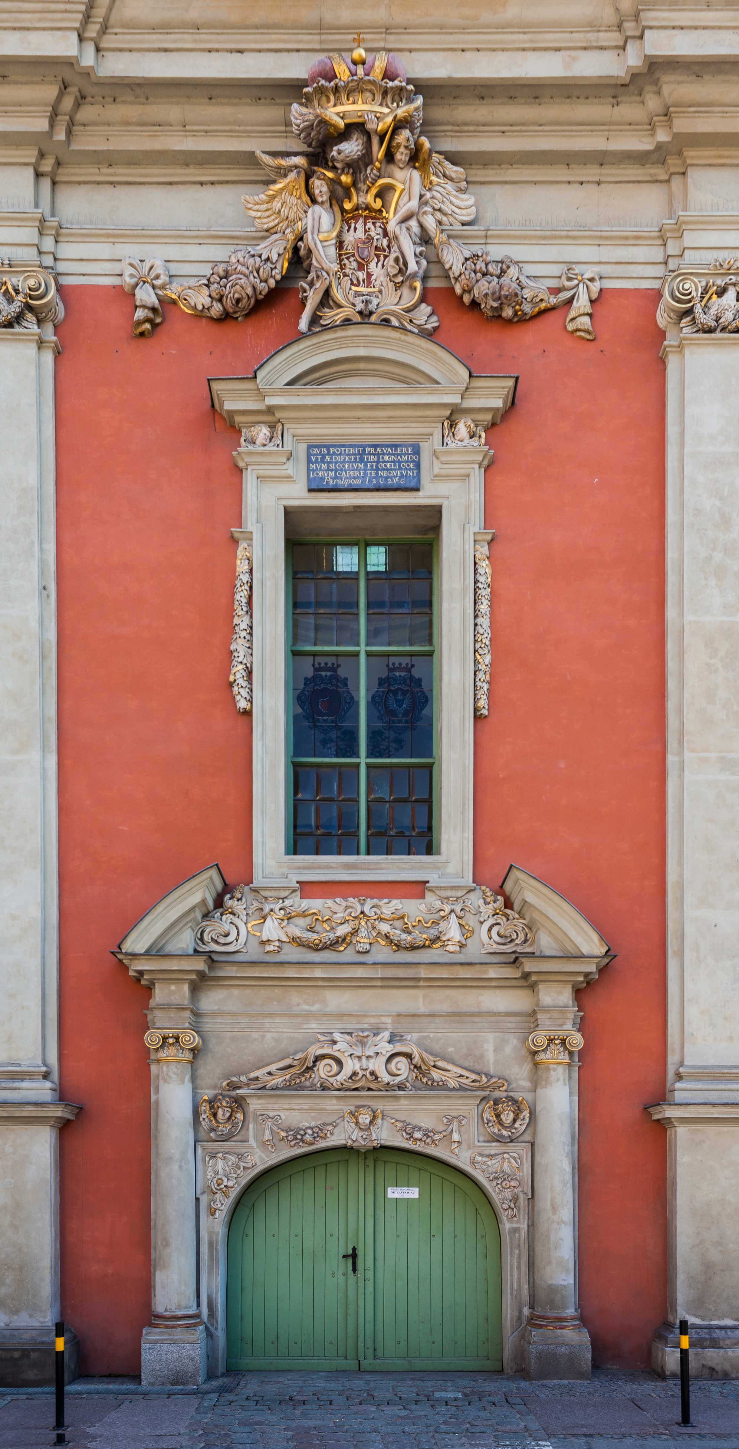 Royal Chapel, Gdansk, Poland